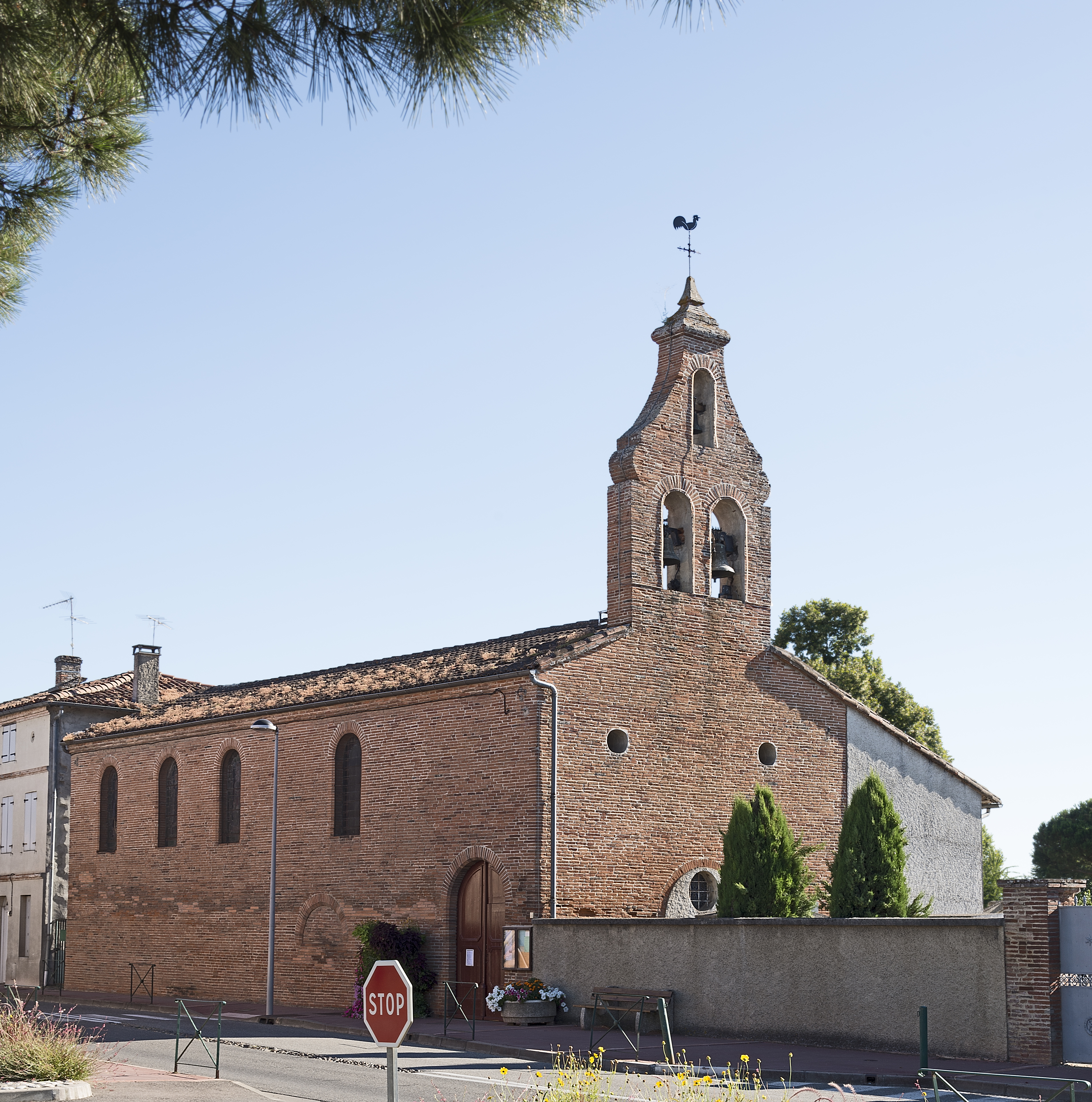 Bressols, Tarn et Garonne, France. The church "Notre Dame de la Nativité".